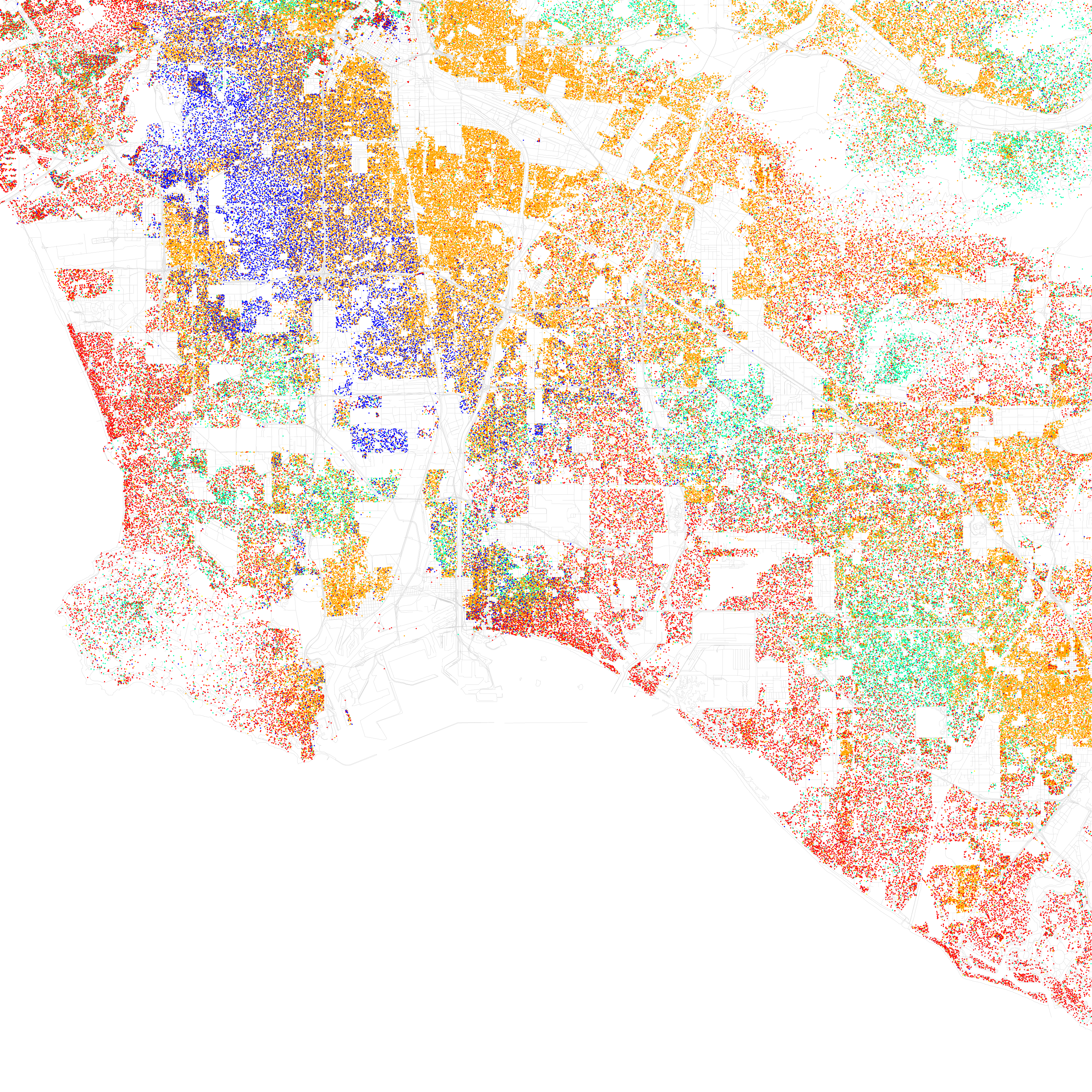 Maps of racial and ethnic divisions in US cities, inspired by Bill Rankin's map of Chicago, updated for Census 2010. Red is White, Blue is Black, Green is Asian, Orange is Hispanic, Yellow is Other, and each dot is 25 residents. Data from Census 2010. Base map © OpenStreetMap, CC-BY-SA